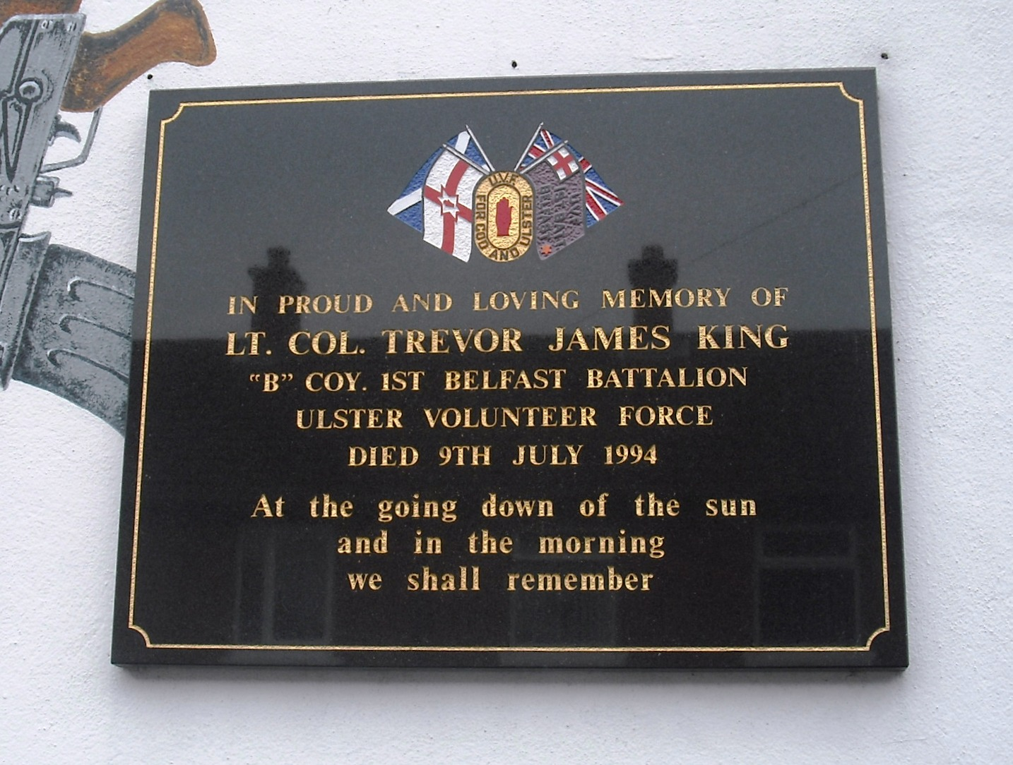 Memorial plaque for UVF commander Trevor King, Disraeli Street, Belfast